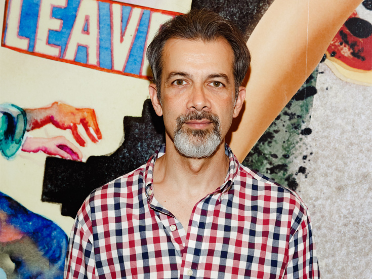 Dariush Kash